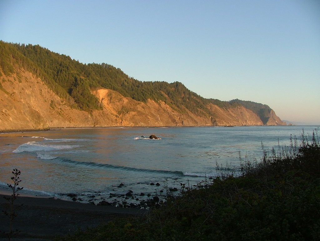 Picture of Bear Harbor in Sinkyone Wilderness State Park on the northern California coast, USA.